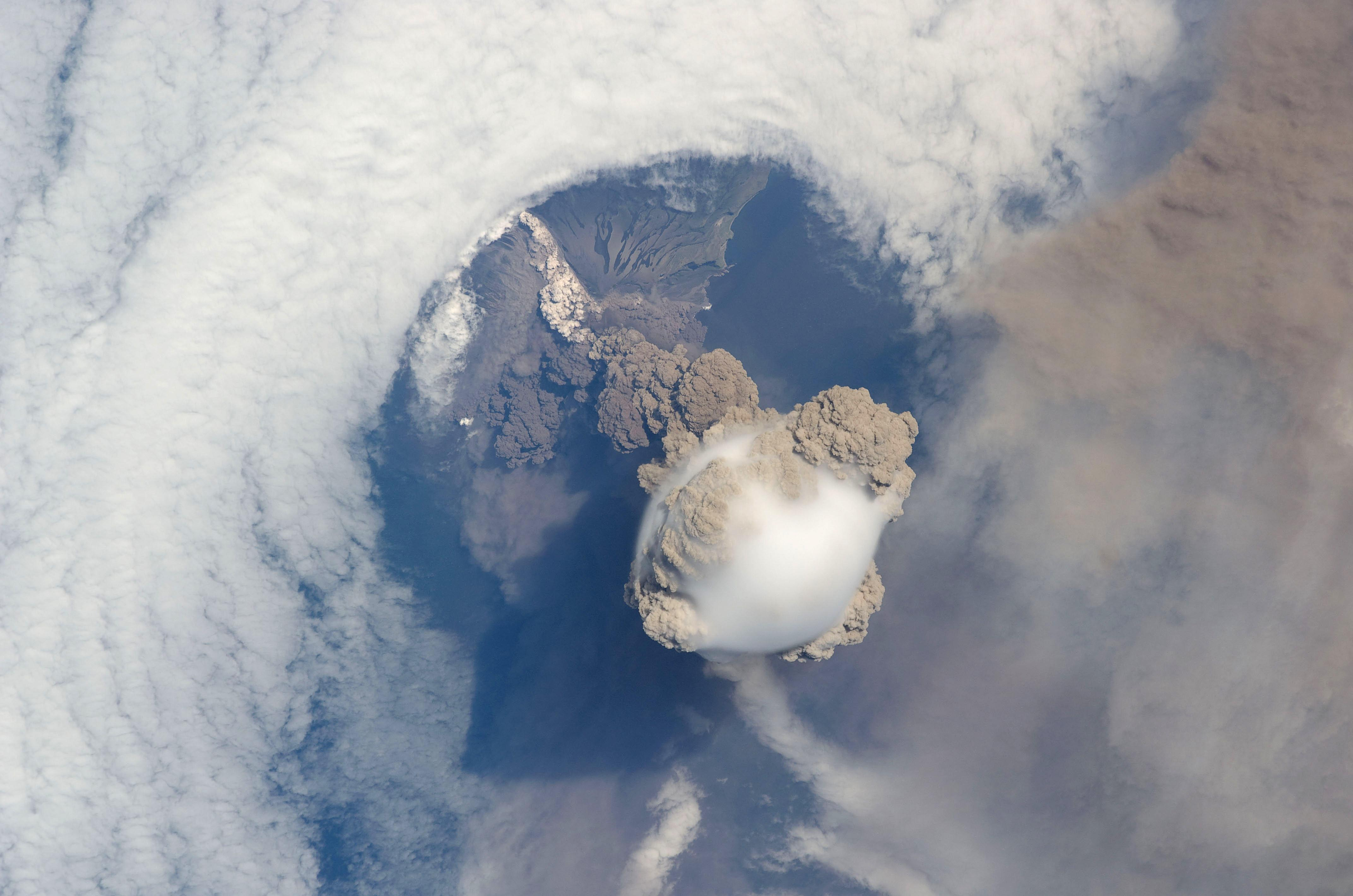 A picture of Russia's Sarychev Volcano, located in the Kuril Islands, erupting, as seen from the International Space Station